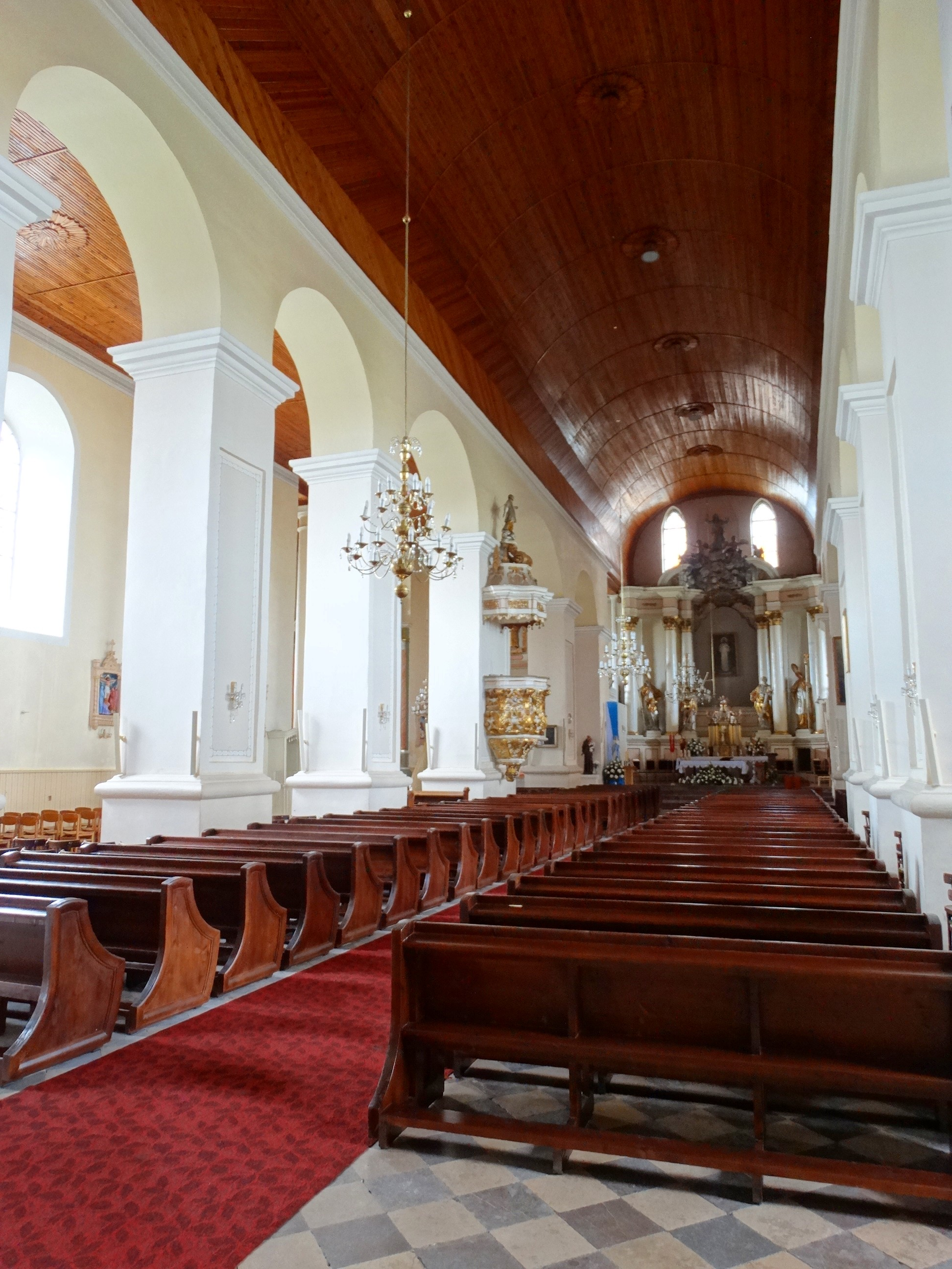 Catholic Church, Eišiškės, Šalčininkai District, Lithuania